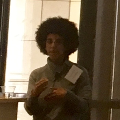 Timnit Gebru wants to replace the U.S. Census (which costs $1B/year to implement) by simply analyzing the cars seen in Google Street View images. After processing 22 million observed cars, she found some fascinating things, like the predictive power of "the sedan/truck ratio" for political party. Republicans sure like trucks! More findings in the comments below. From the AI in Fintech Forum today at Stanford ICME.